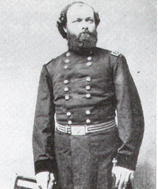 Brigadier-General Quincy Gillmore (US Engineers)